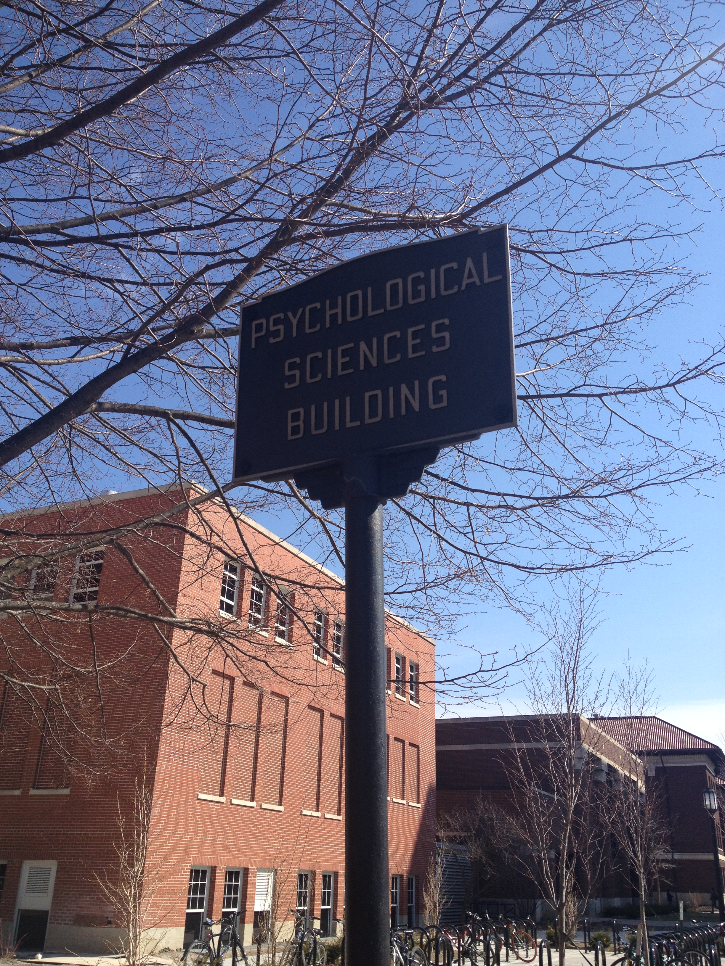 The sign outside the Psychological Sciences Building at Purdue University